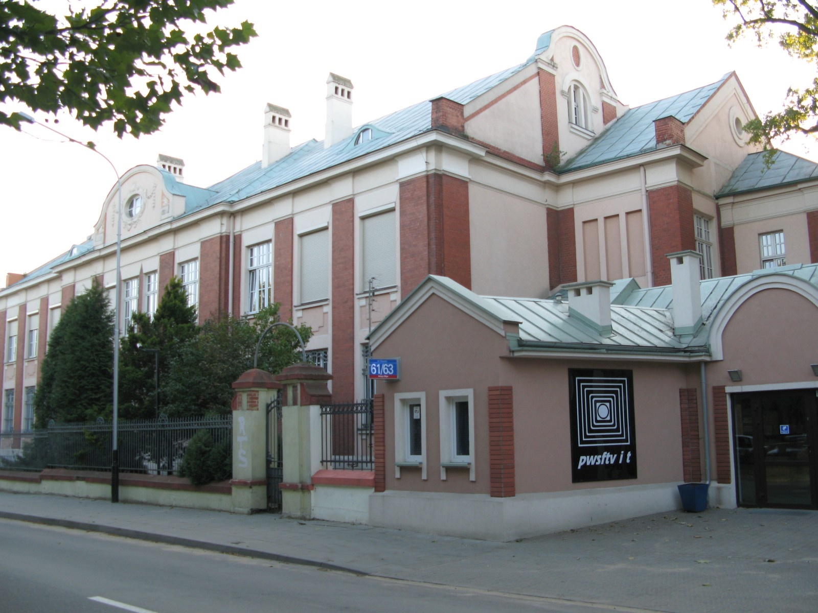 Building of Filmschool in Łódź, Targowa Street